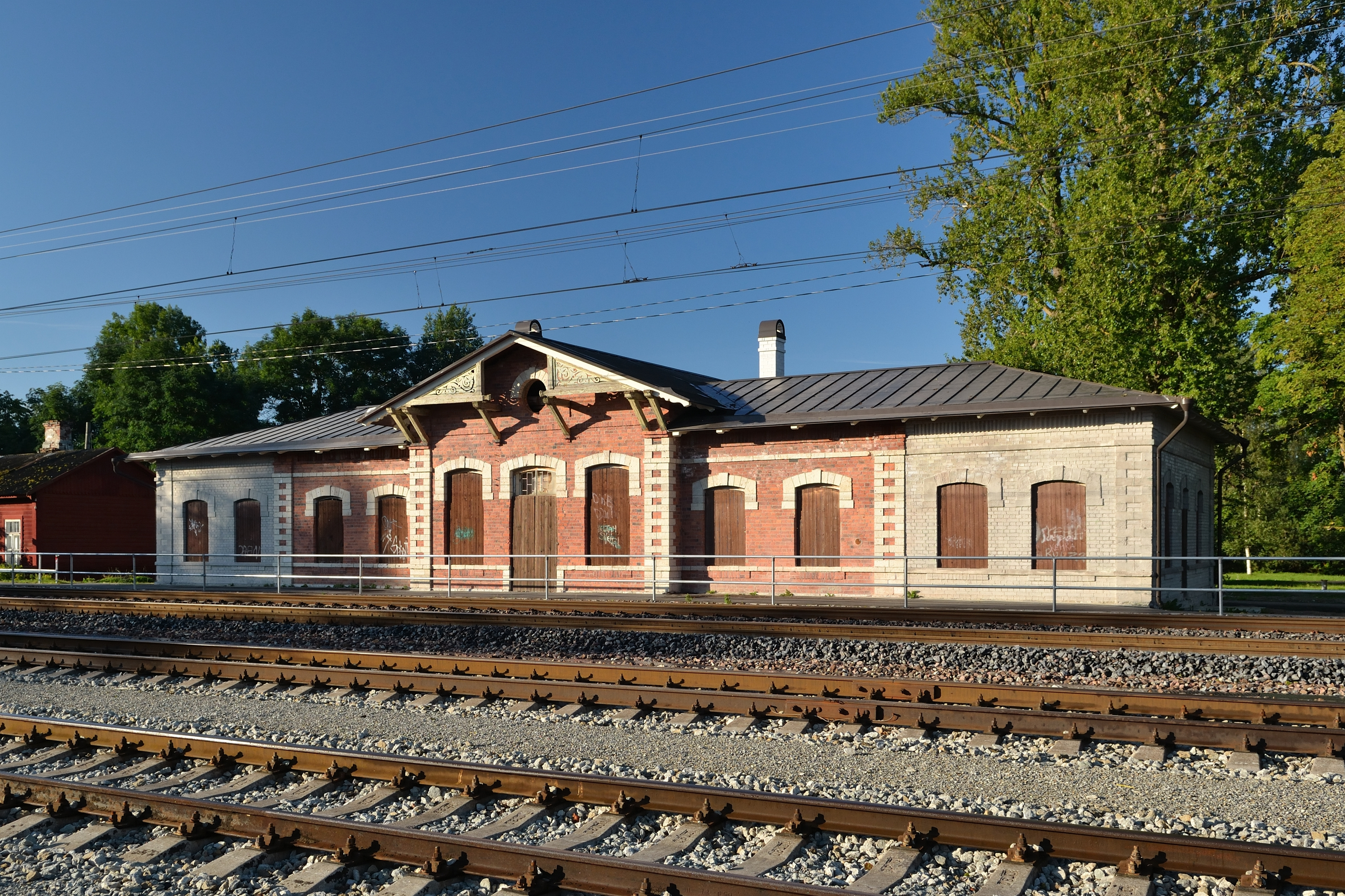 Kehra station main building